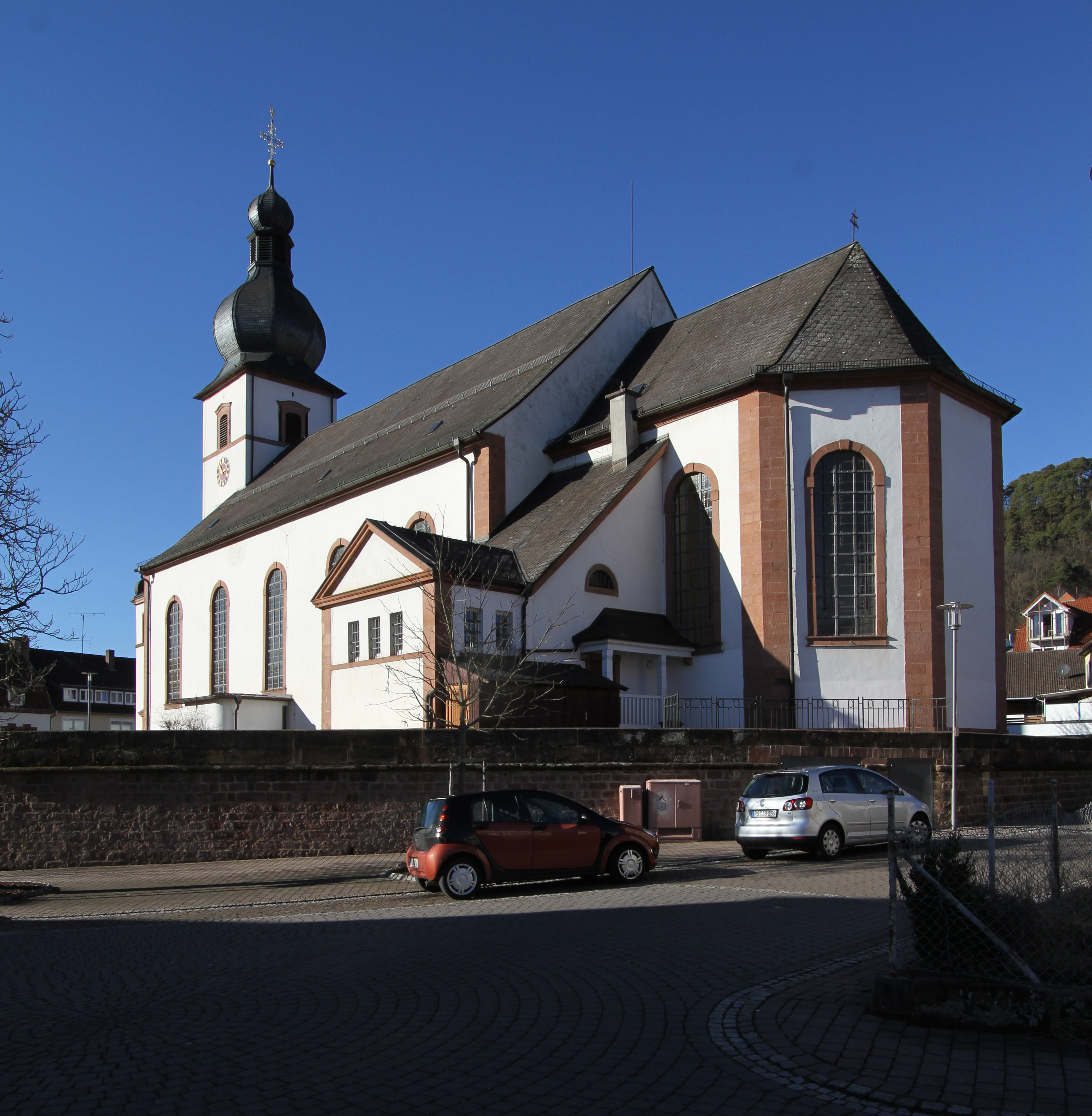 Church of Saint Lawrence in Dahn